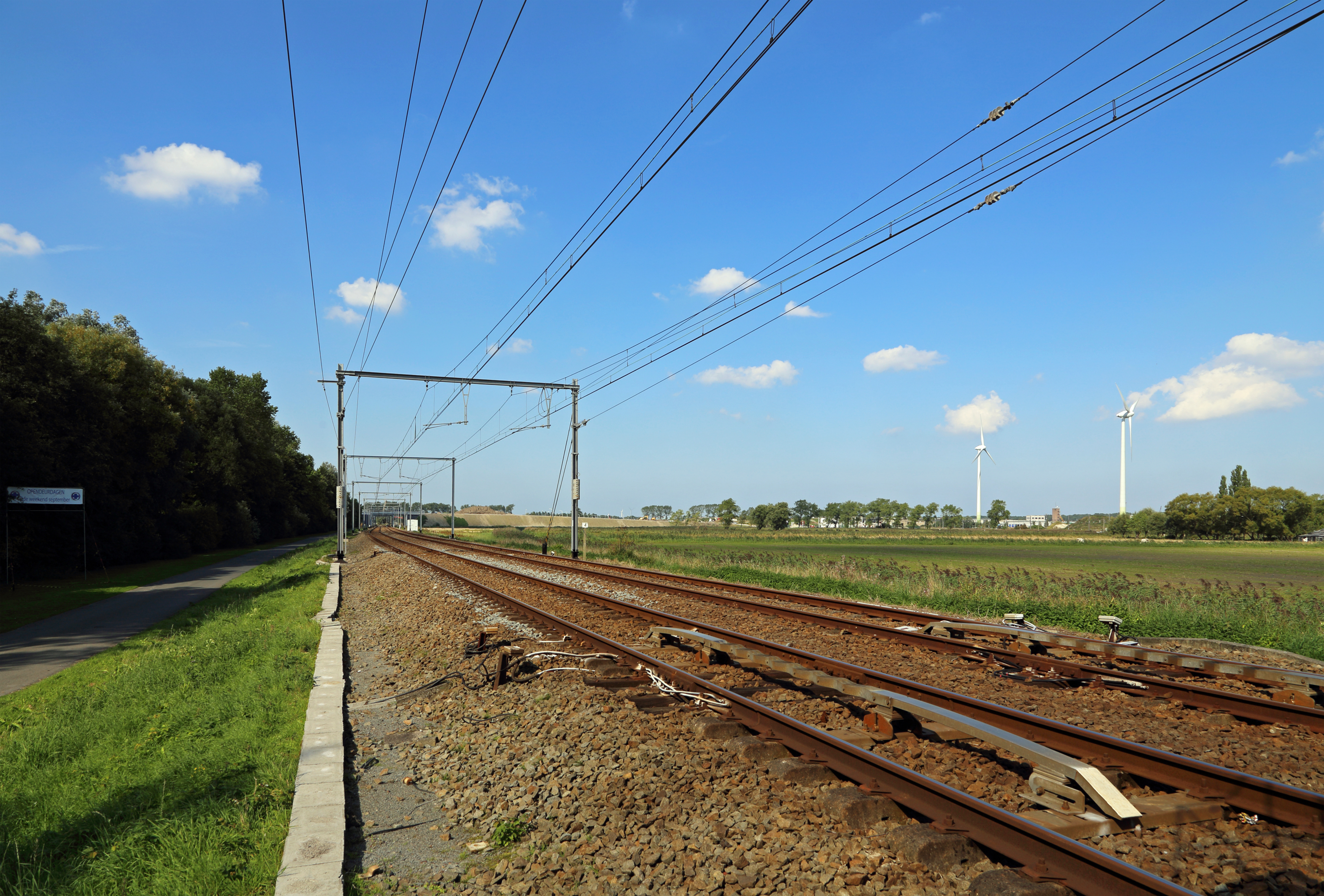 Bruges (Belgium): railway line 51 Bruges-Blankenberge, about 1 km north of the Blauwe Toren railway junction. Direction ahead: Blankenberge. Foreground: a 'crocodile' of the train protection system (Memor and TBL). In the distance: the bridge of the A11 motorway.